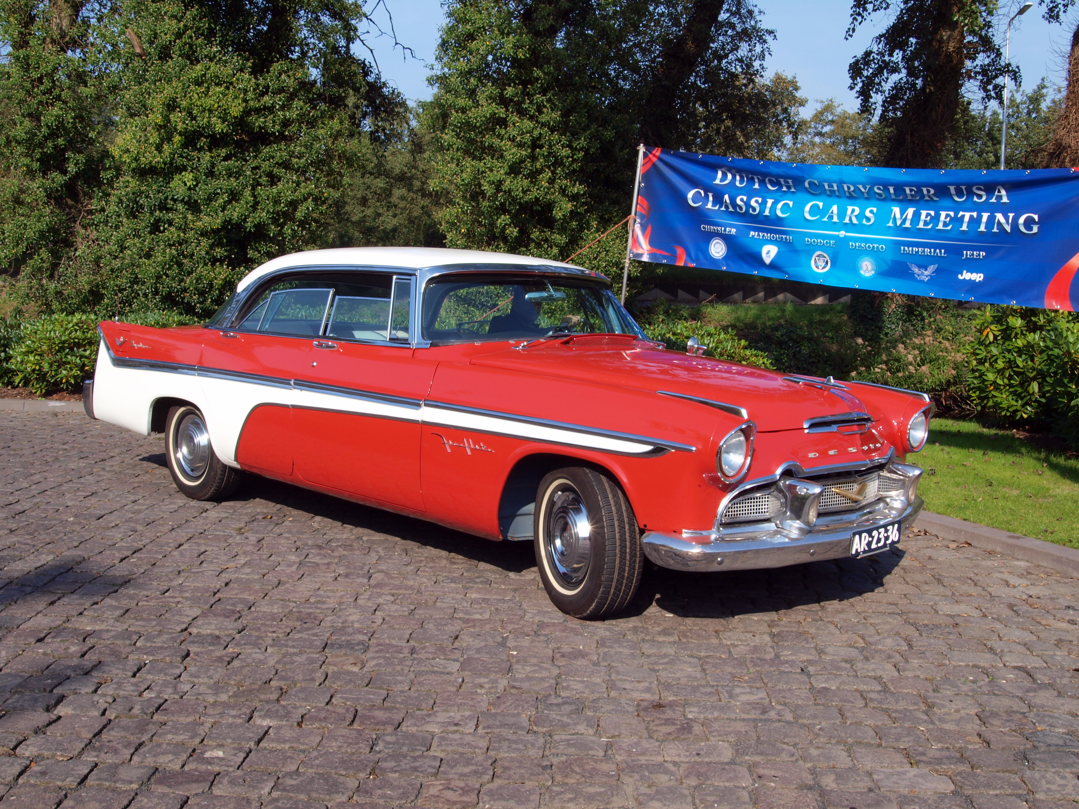 Photographed at the premmesis of the Louwman museum, The Hague, The Netherlands. OLYMPUS DIGITAL CAMERA